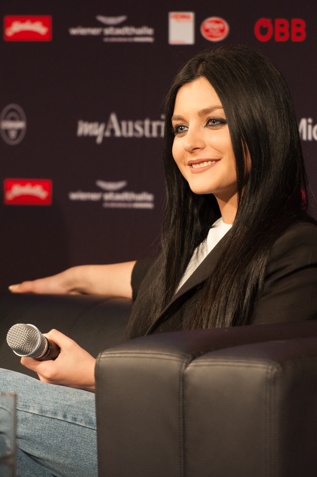 Eurovision Song Contest Vienna 2015: Nina Sublatti